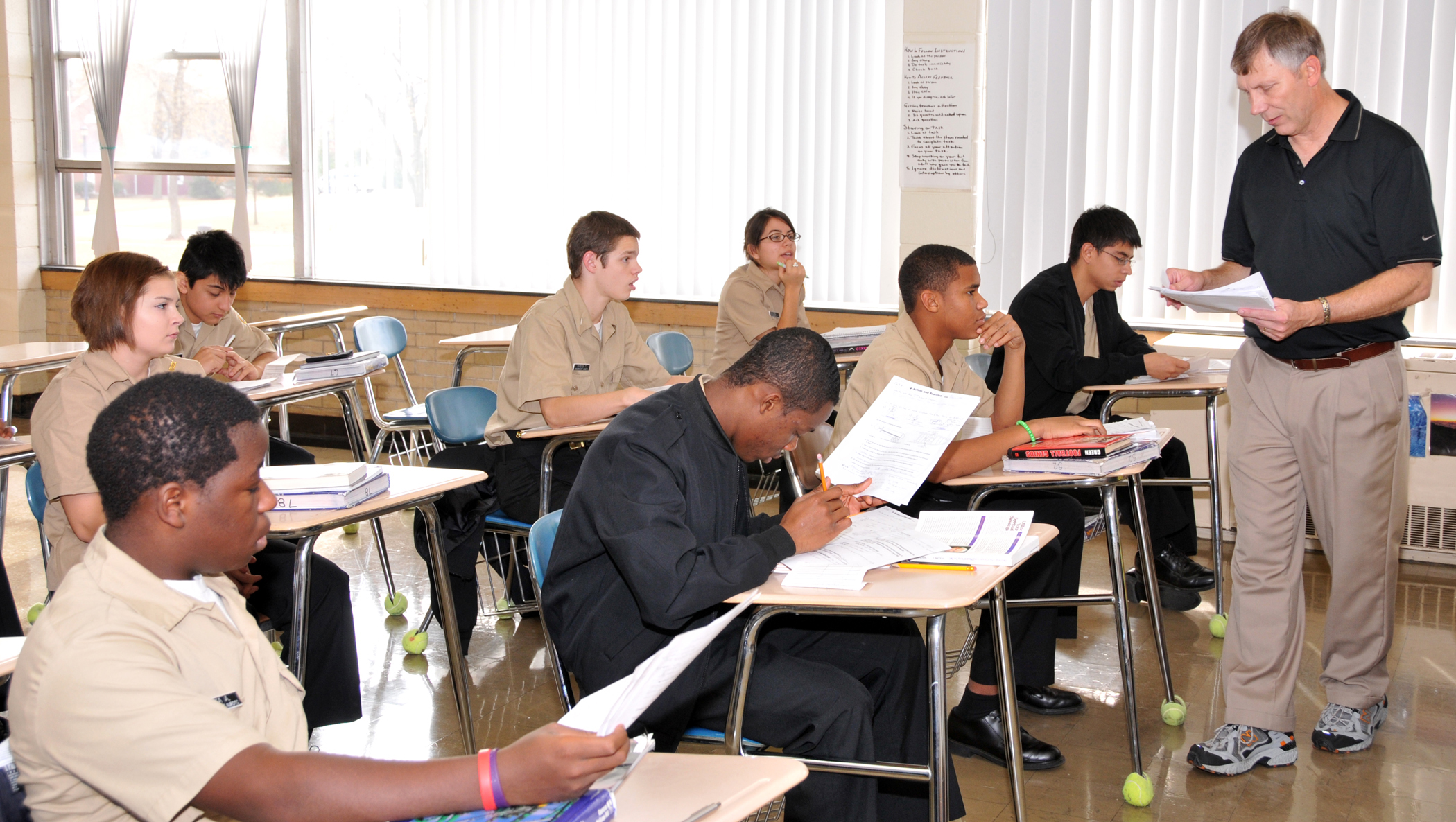 MOOSEHEART, Ill. (Nov. 10, 2010) Mooseheart High School science teacher Curt Schlinkman hands out homework to his students who are also Navy Junior ROTC cadets. Mooseheart High School has the only Navy Junior ROTC unit where the cadets live on campus. (U.S. Navy photo by Mike Miller/Released)